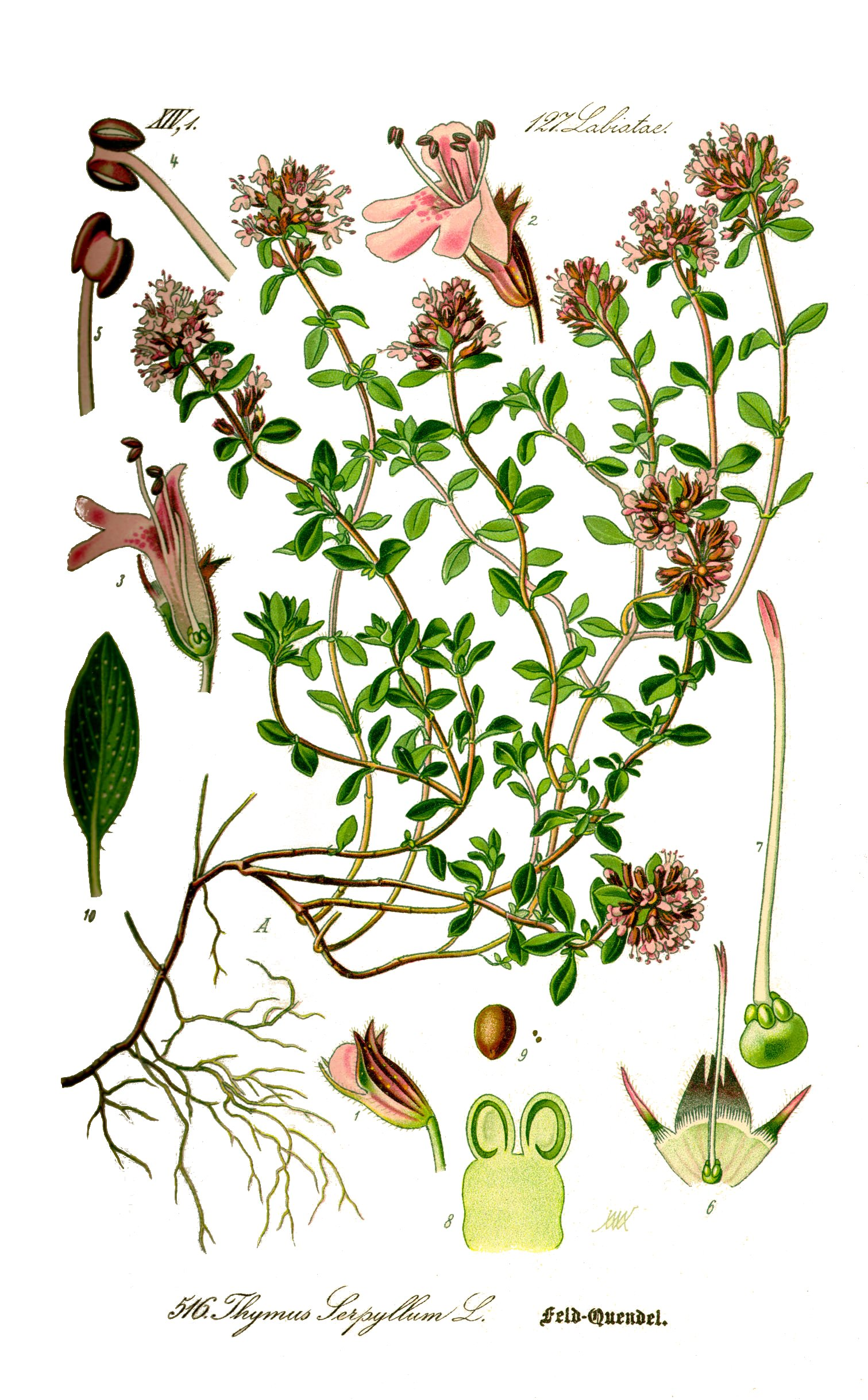 Name Thymus serpyllum Family Lamiaceae